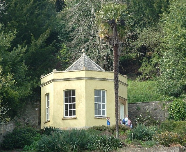 Useful 'Folly' The octagonal summer house on the upper terrace at Clevedon Court. At first glance there appears to be a telephone pole spoiling the view. But it is in fact a fine specimen of Trachycarpus fortunei about seven metres tall which illustrates the mildness of the climate on the edge of the Bristol Channel